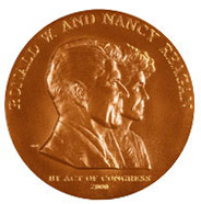 The Congressional Gold Medal presented to Ronald and Nancy Reagan in 2002.